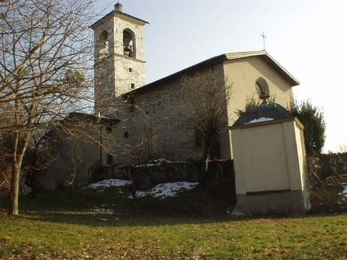 Chiesa di San Giorgio Niardo